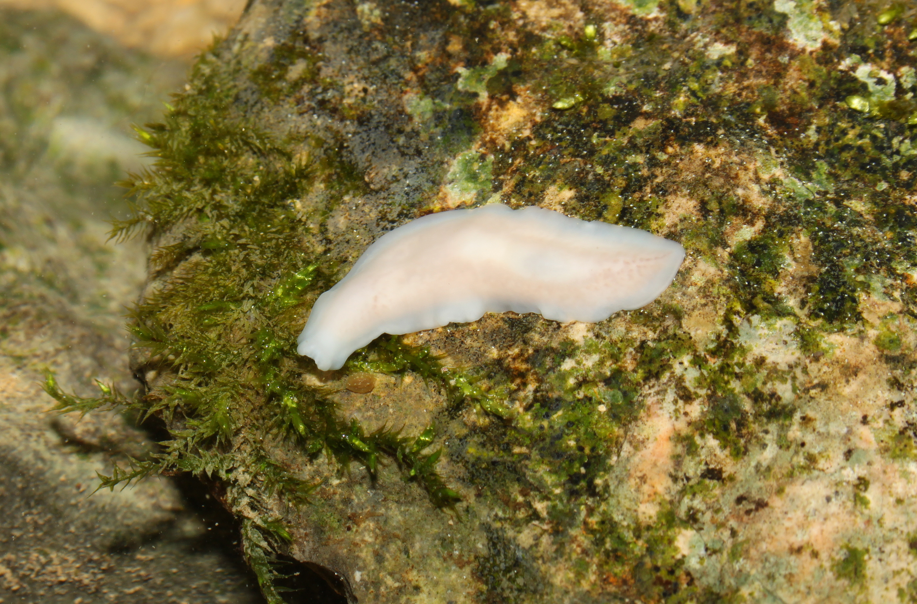 Dendrocoelum cavaticum, Family: Dendrocoelidae, Location: Southern Germany, Grabenstetten, Spring.